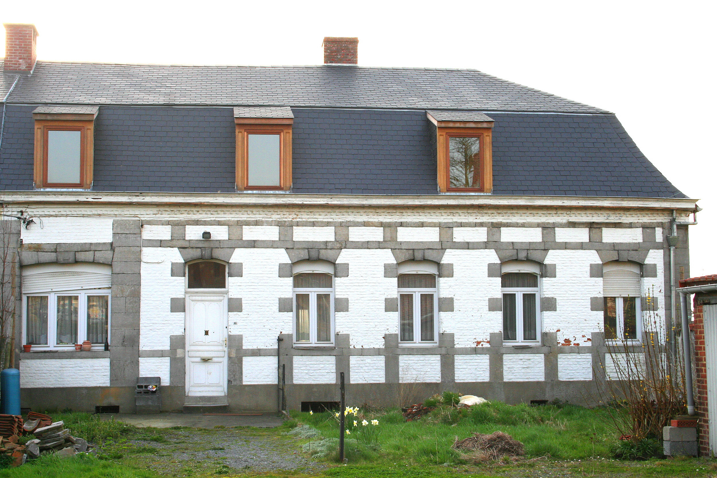 Meslin-l'Evêque (Belgium), the Fenelon house (XVIIIth century).